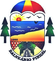 Coat of arms of the city of Balneário Pinhal, Rio Grande do Sul, Brazil.